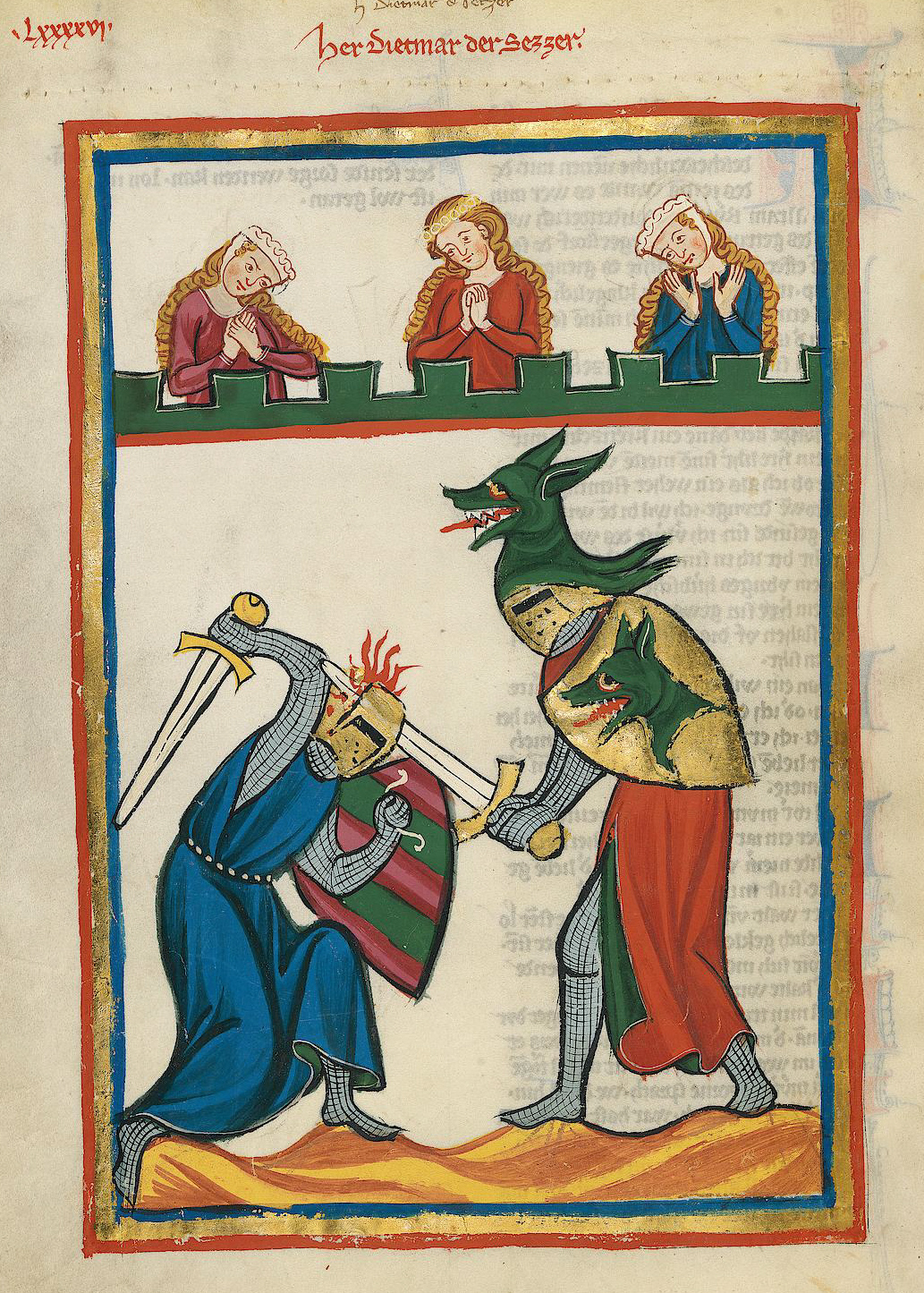 Codex Manesse, UB Heidelberg, Cod. Pal. germ. 848, fol. 321v: Dietmar der Setzer (Middle High